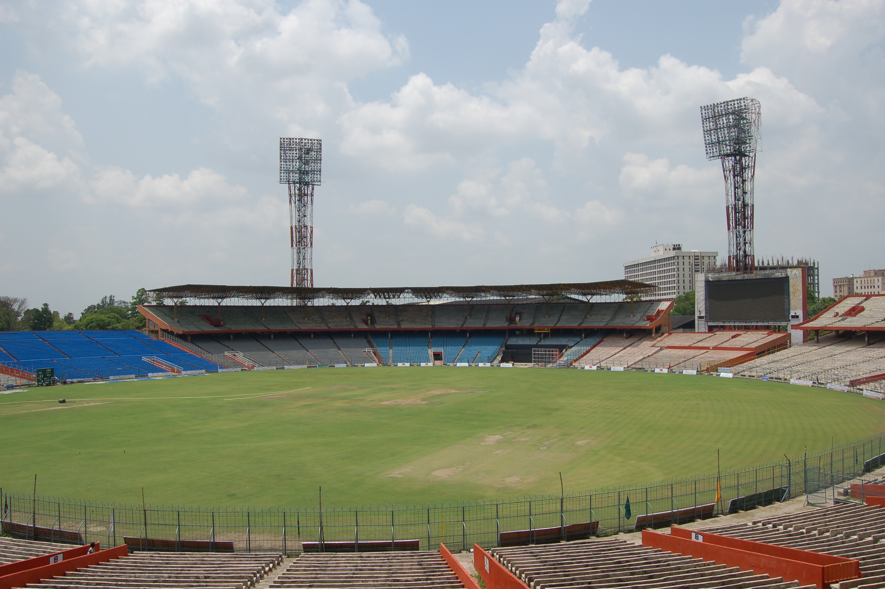 A picture of the Eden Gardens stadium before the start of a match.